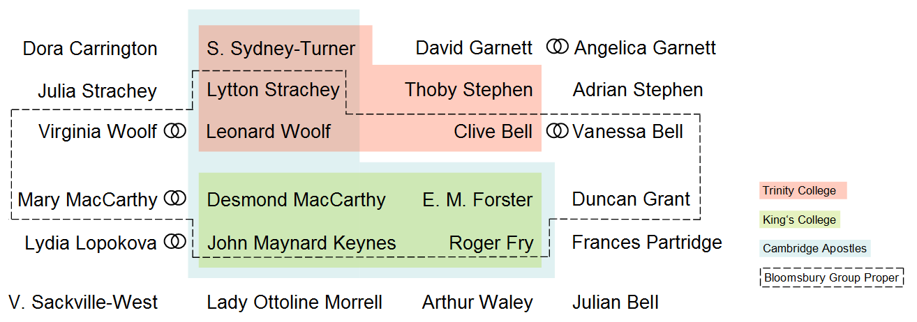 This diagram gives a detailed overview of the Bloomsbury Group, including both core members such as Virginia Woolf, Clive Bell, Duncan Grant and Lytton Strachey and lesser known members such as David Garnett, Frances Partridge and Vita Sackville-West.